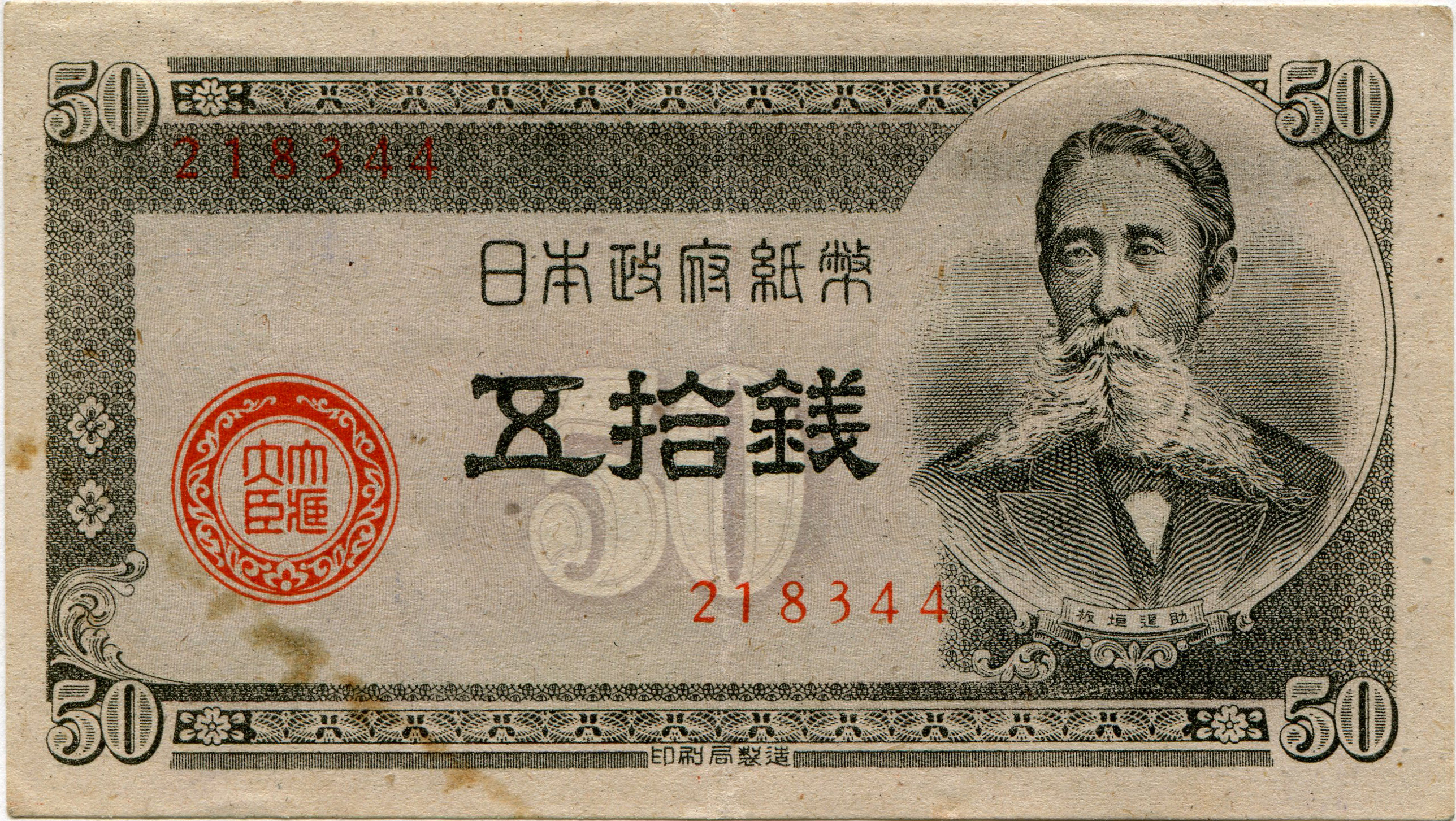 Japanese government small-face-value paper money, Series B "Itagaki" 50 Sen (1/2 Yen). Portrait: Itagaki Taisuke. First issued in 1947. Demonetized in 1953. 60mm x 108mm.